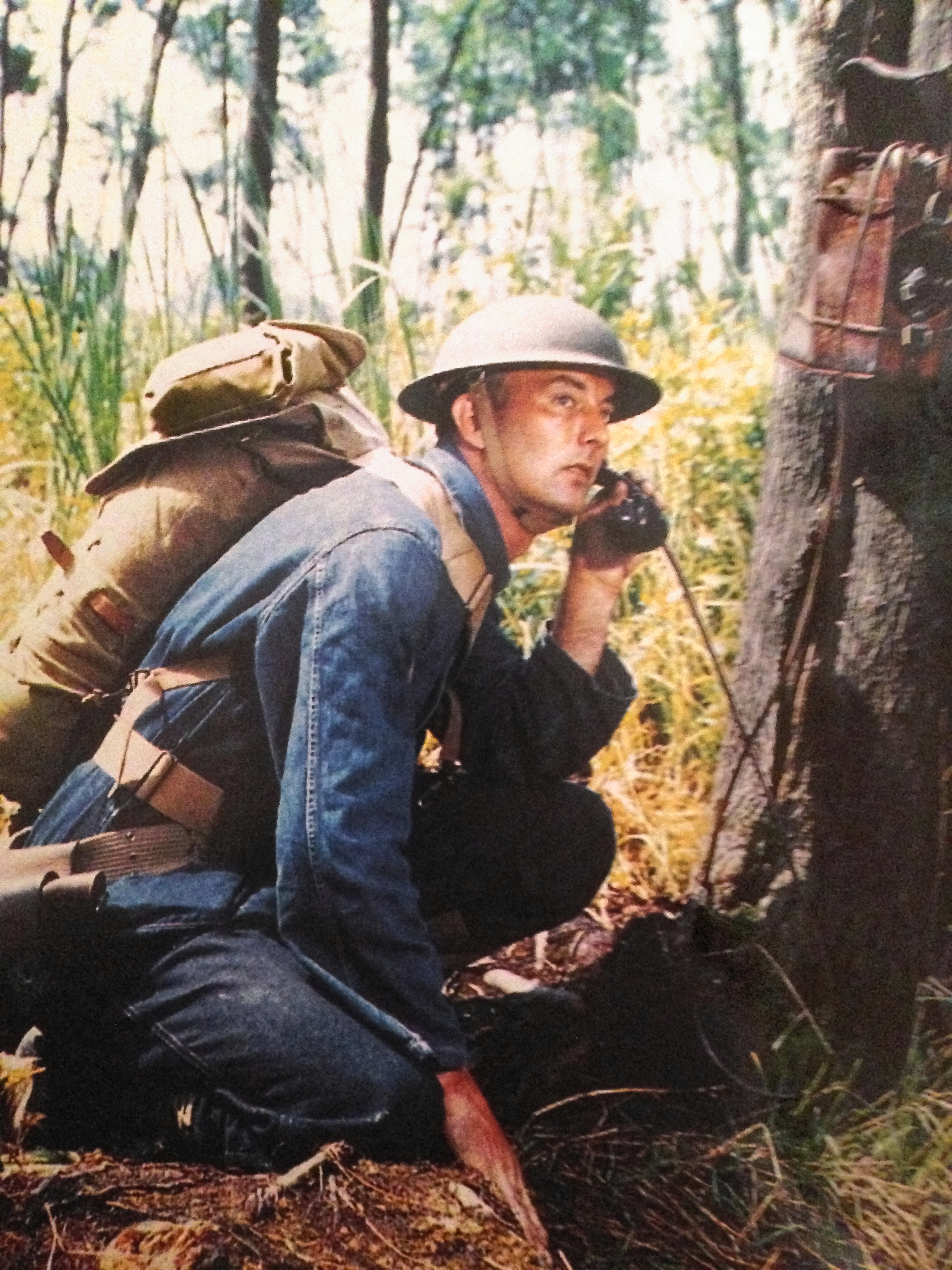 Wearing the full M-1928 infantry haversack, a slightly modified WW1 pack, this soldier wears the old style blue denim fatigues. He is using an EE-8 field telephone and wears a right side holster for the 1917 .45 caliber pistol.